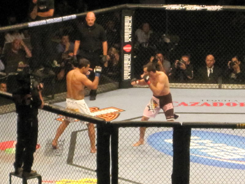 See more at - Follow Kalooz on YouTube: and on Twitter